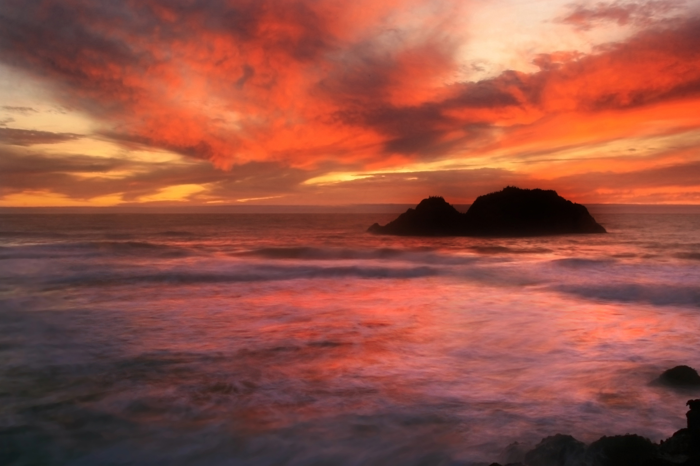 Sunset from Sutro Bath at Land's End in San Francisco